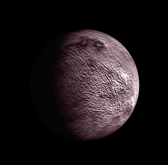 Artist impression of Makemake.